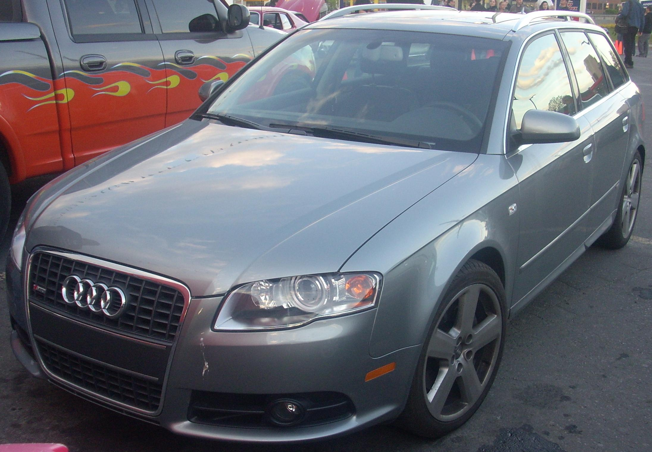 2005-2008 Audi A4 Avant S-Line 2.0 photographed in Montreal, Quebec, Canada at Gibeau Orange Julep.